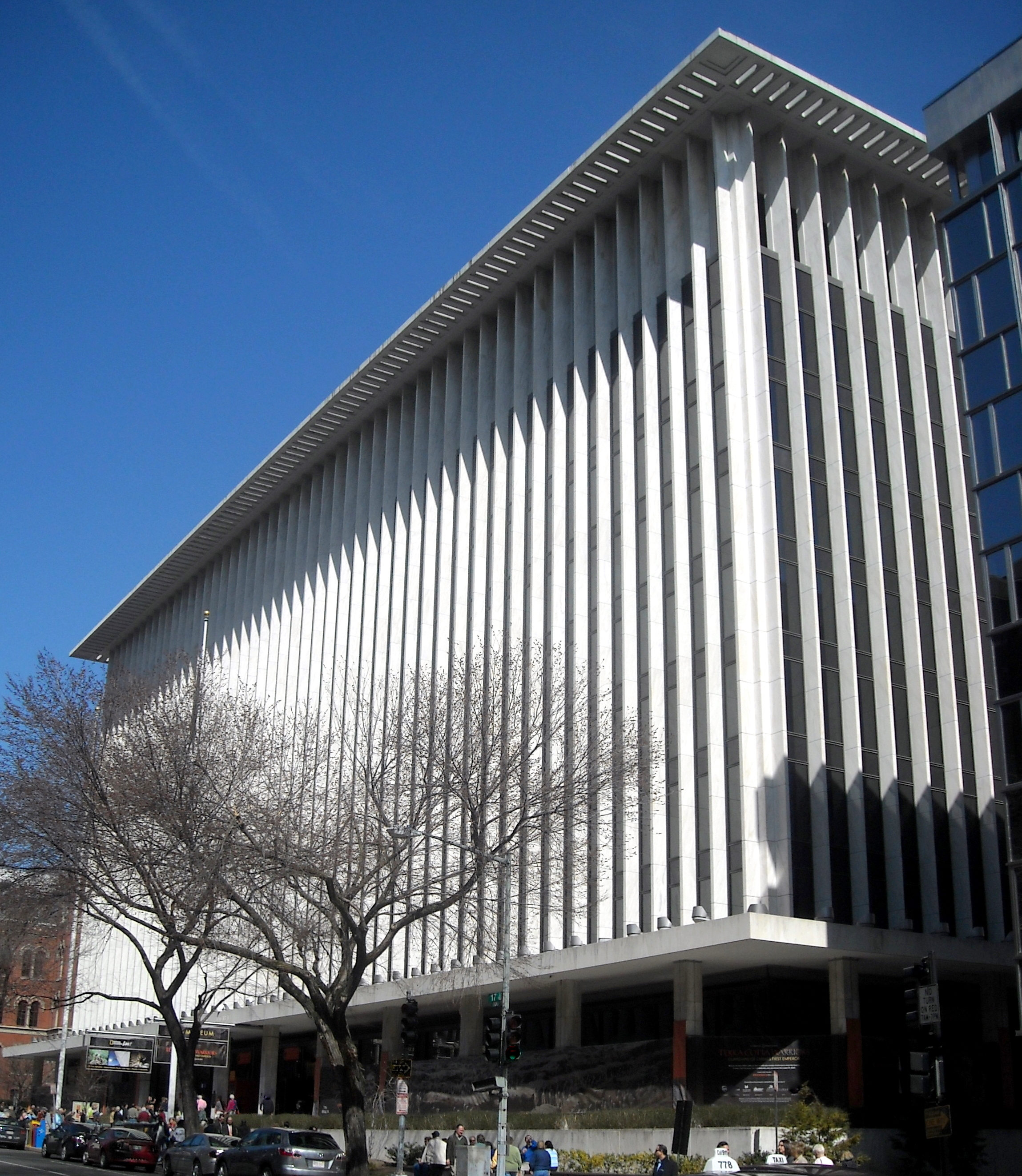 The National Geographic Museum located at 1145 17th Street, N.W., near Dupont Circle in Washington, D.C. The Modernist building was designed by the architectural firm of Edward Durell Stone & Associates in 1964.